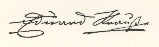 Eduard Strauss (b. 1835, d. 1915; austrian composer), autograph signature